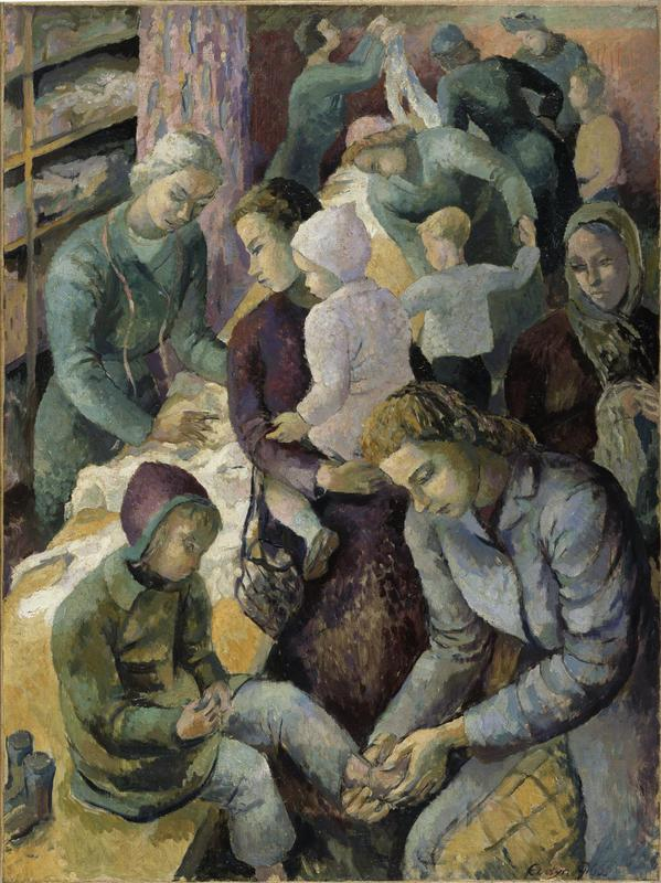 A scene inside a war-time clothing exchange run by the Women's Voluntary Service for Civil Defence, showing women trying clothes on their children. Two WVS volunteers stand behind the counter in distinctive bottle green coats.